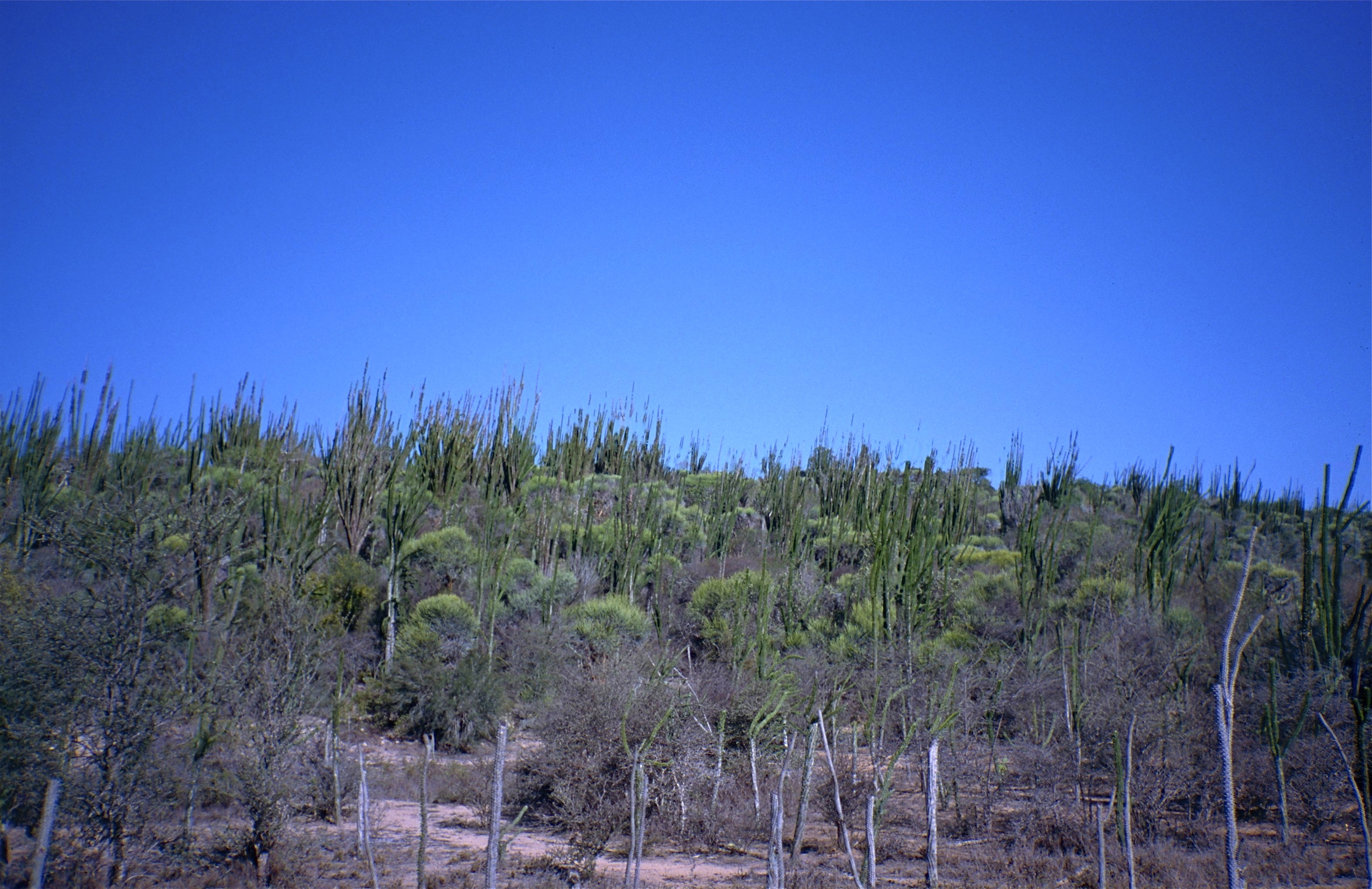 Between Tolagnaro and Berenty, MADAGASCAR Scanned Slide from 1998